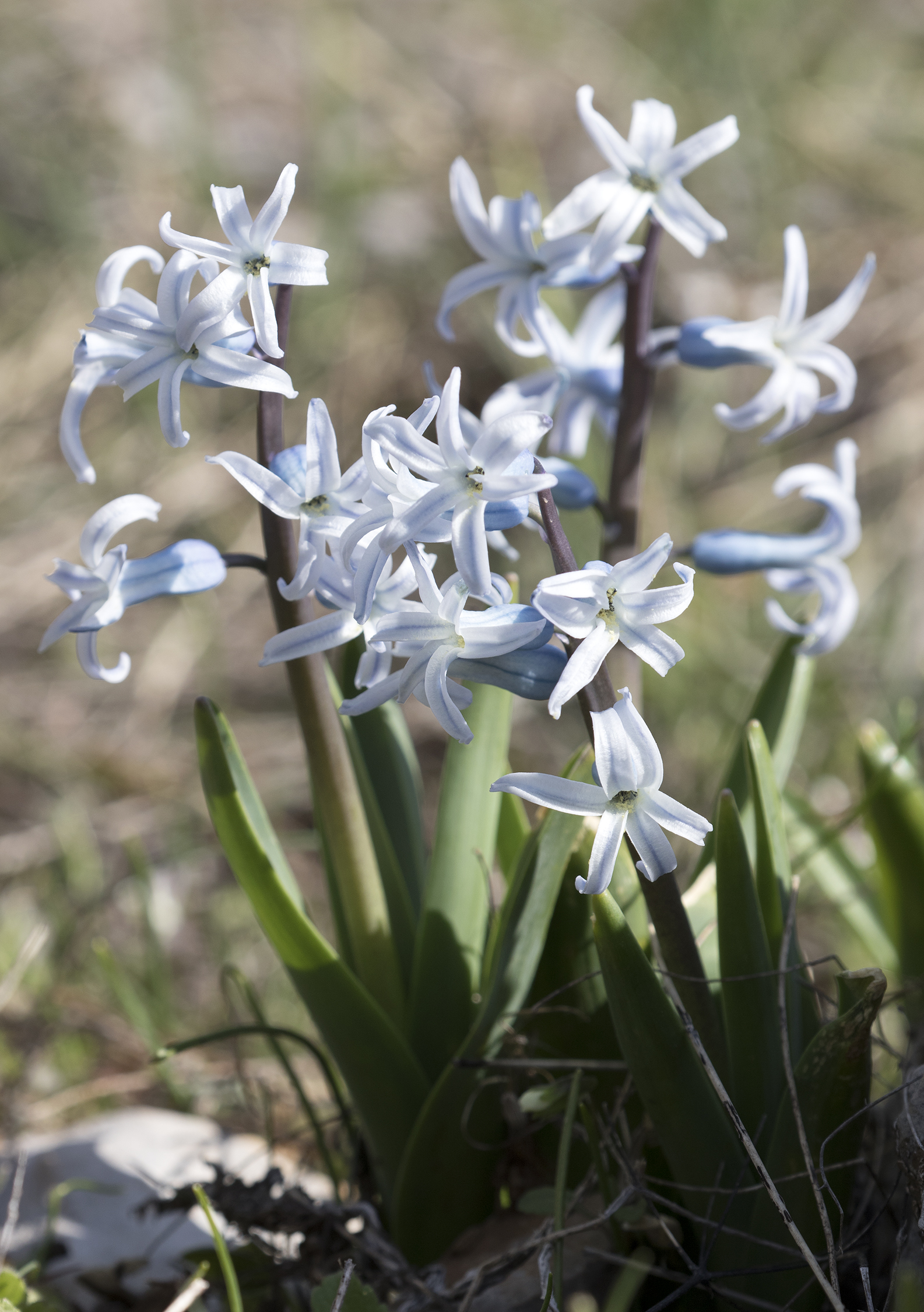 Flowering common hyacinth (Hyacinthus orientalis ssp. chionophilus). Saksağan Crossing in Saimbeyli - Adana, Turkey.